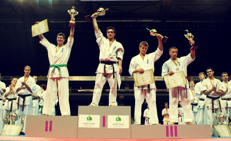 Rati Tsiteladze Winner of European Kyokushin/ Shinkyokushin karate championship –85kg -Lithuania. December 5th 2009